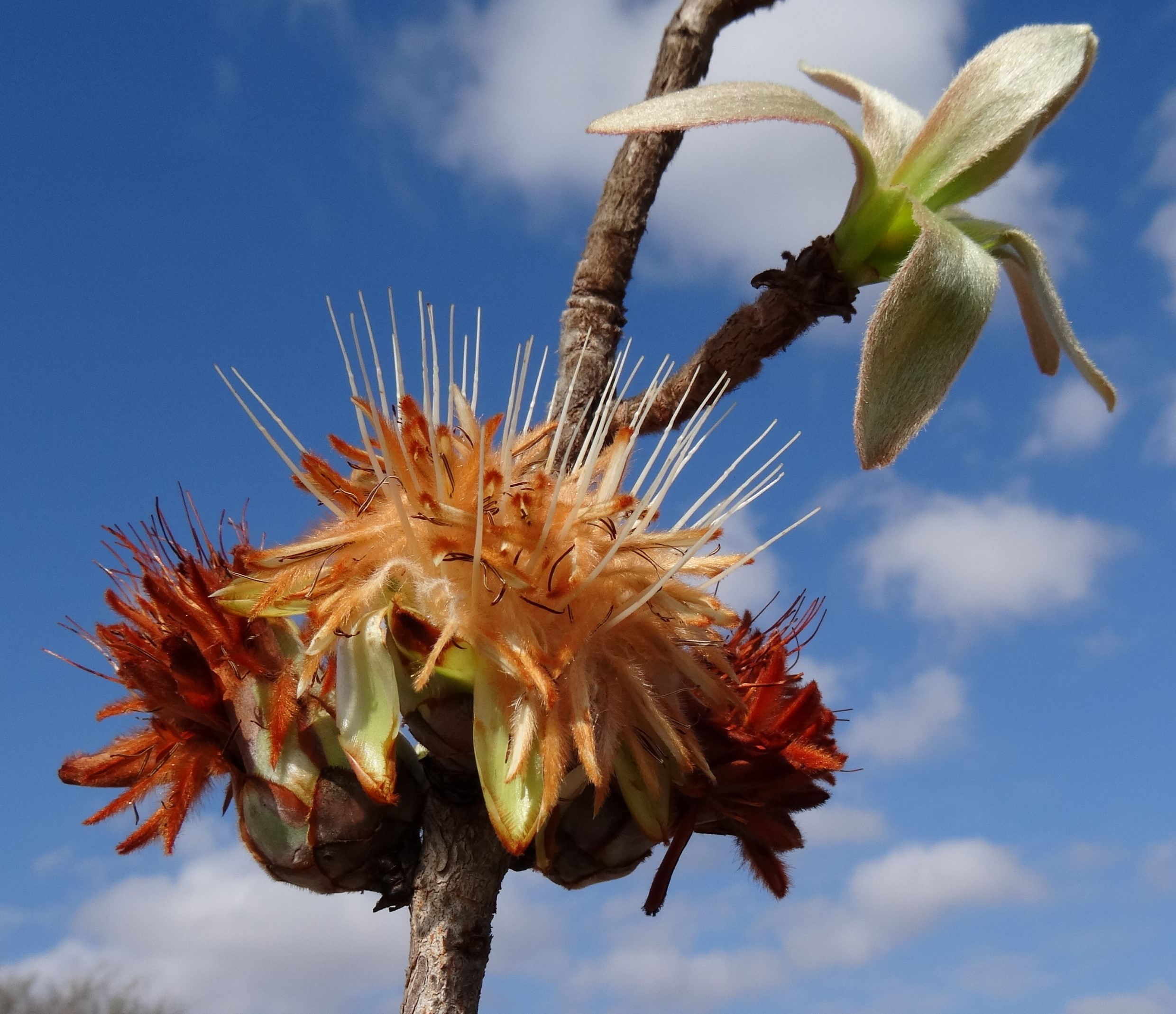 A surprise to find Protea at only 500 m.a.s. in Northern Mozambique. (Namituri village, Namuno district). A marshy area with grasses.